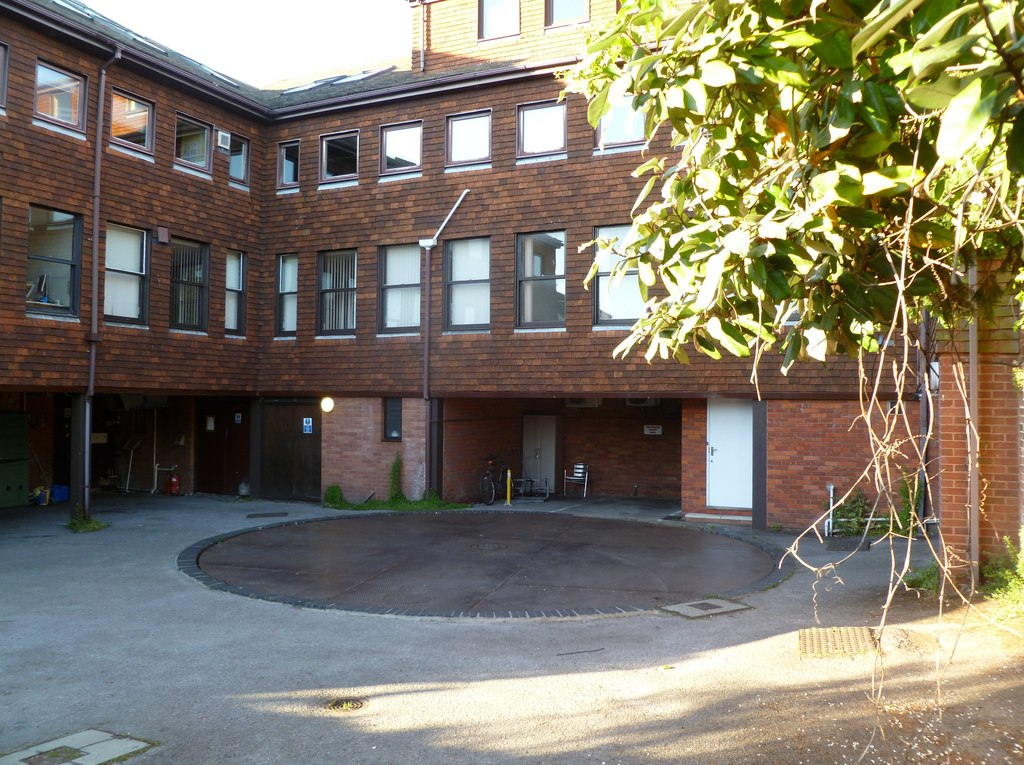 Christchurch, trolleybus turntable